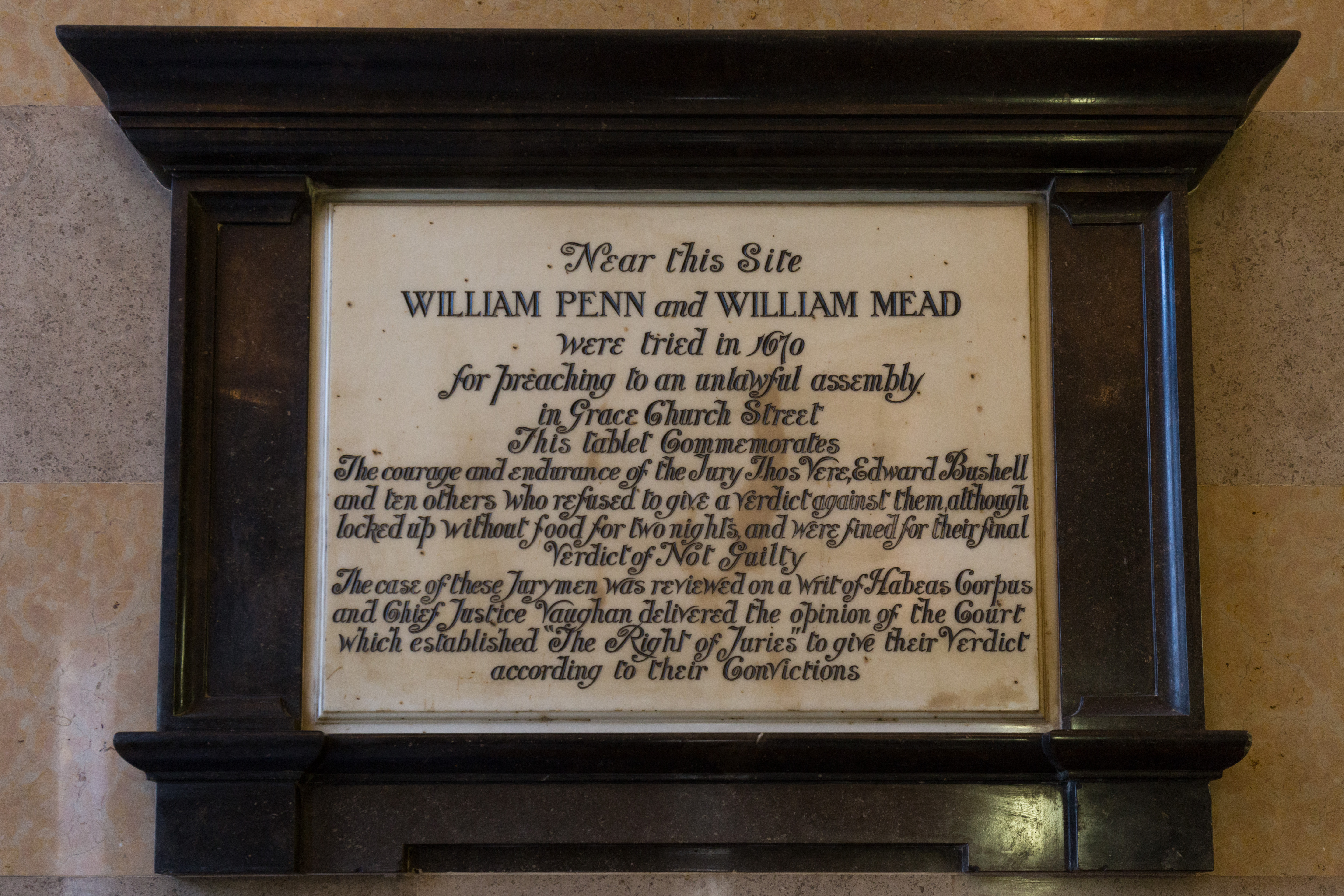 William Penn and William Mead plaque at the Old Bailey. Inscription: Near this Site WILLIAM PENN and WILLIAM MEAD were tried in 1670 for preaching to an unlawful assembly in Grace Church Street This tablet Commemorates The courage and endurance of the Jury Thos Vere, Edward Bushell and ten others who refused to give a verdict against them, although locked up without food for two nights, and were fined for their final verdict of Not Guilty The case of these Jurymen was reviewed on a writ of Habeas Corpus and Chief Justice Vaughan delivered the opinion of the Court which established The Right of Juries to give their Verdict according to their Convictions